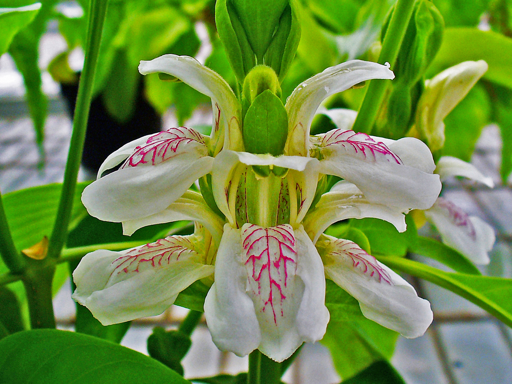 Justicia adhatoda, Acanthaceae, Adulsa, Malabar Nut, inflorescence. The fresh leaves are used in homeopathy as remedy: Justicia adhatoda (Just.)